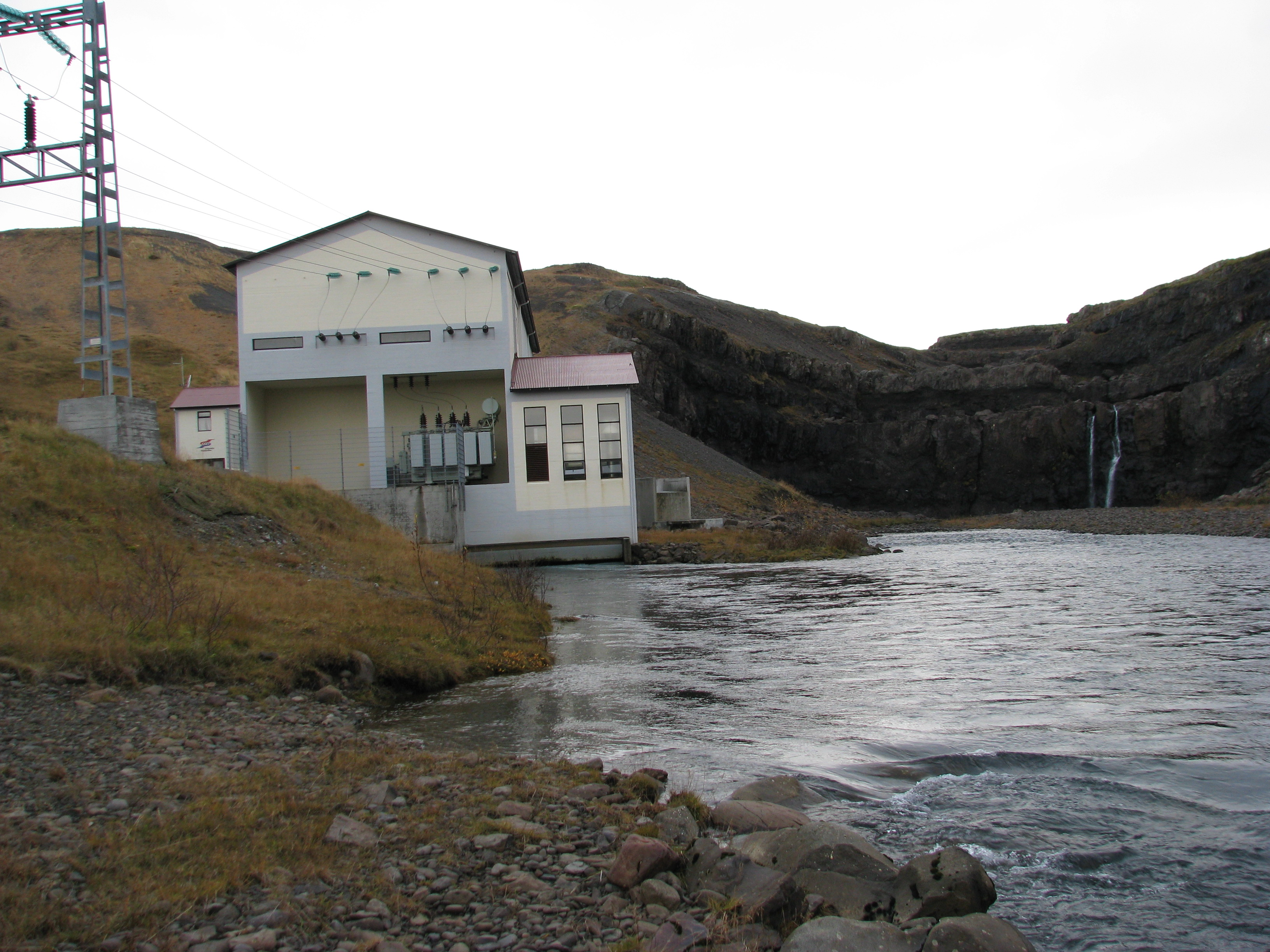 Andakilsvirkjun, a hydropower station in Iceland